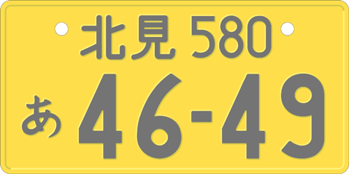 Japanese license plate for private light vehicles(550~660cm³). This sample license plate is registered to Kitami, Hokkaido.